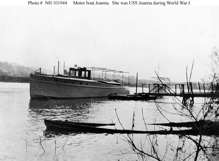 The private motorboat Joanna prior to her service as the United States Navy patrol vessel .